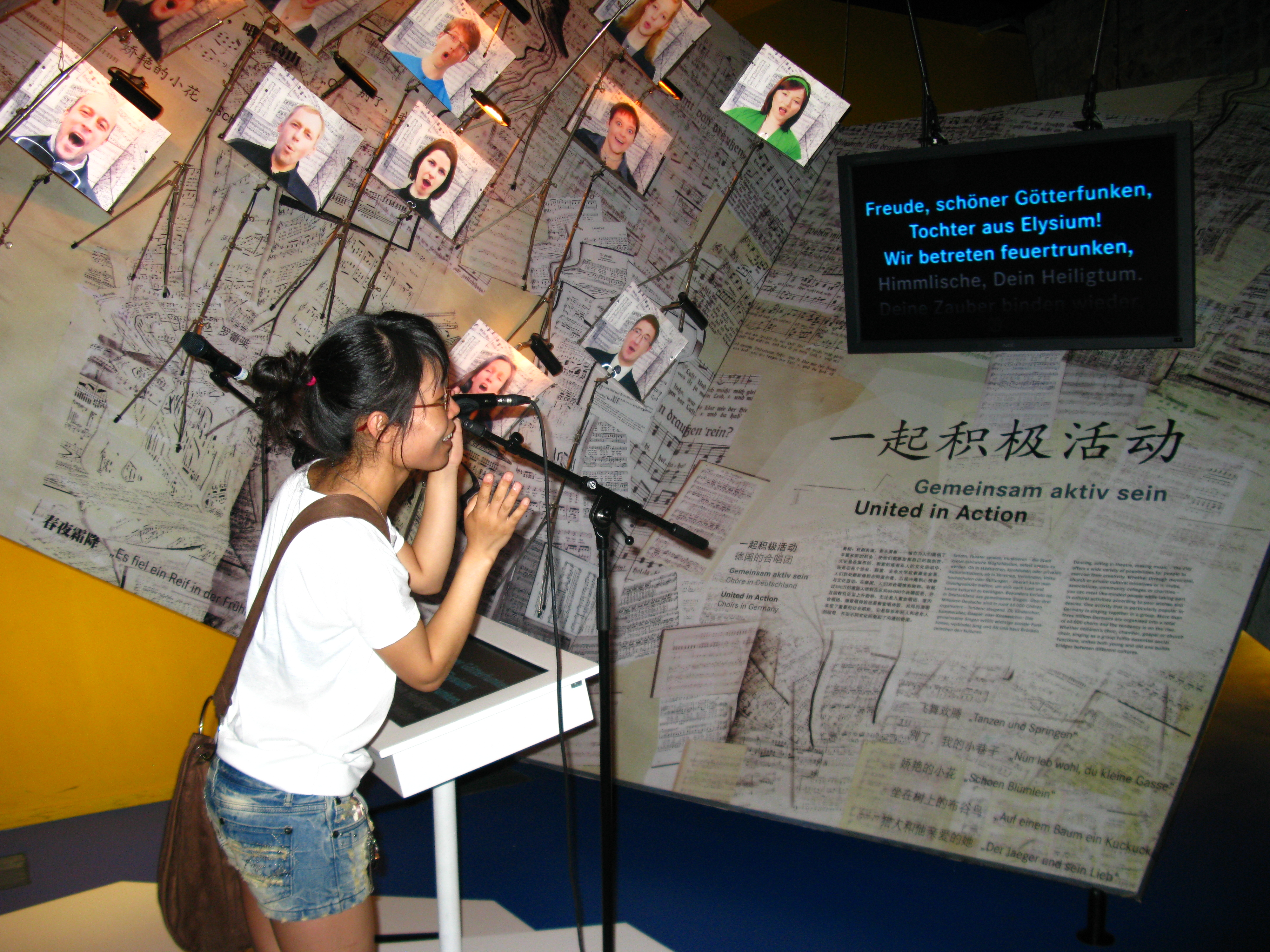 Germany Pavilion at Expo 2010, Shanghai: Karaoke! (Not Heino, but Ludwig van Beethoven)